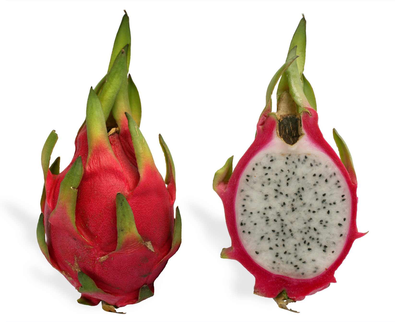 A red pitaya (Hylocereus undatus) fruit, also known as dragonfruit, together with a cross section.